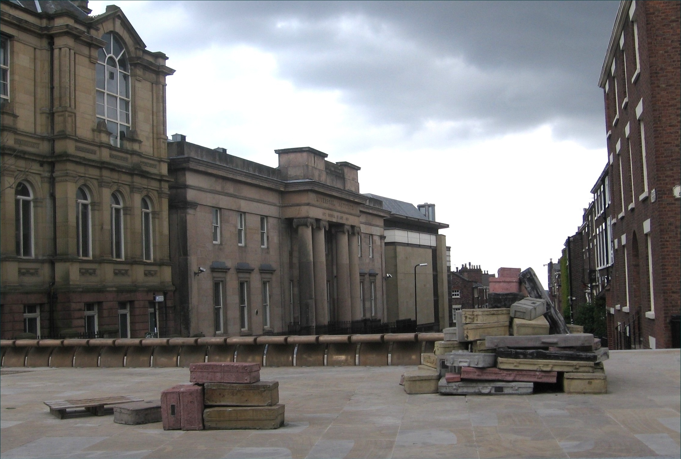 This photo was taken 2007 05 23 during a special trip to Hope Street, by Ken Ashcroft, ARPS. The building with columns,(centre) is LIPA, and that at the left is the Art College. |month=May|day=30|year=2007